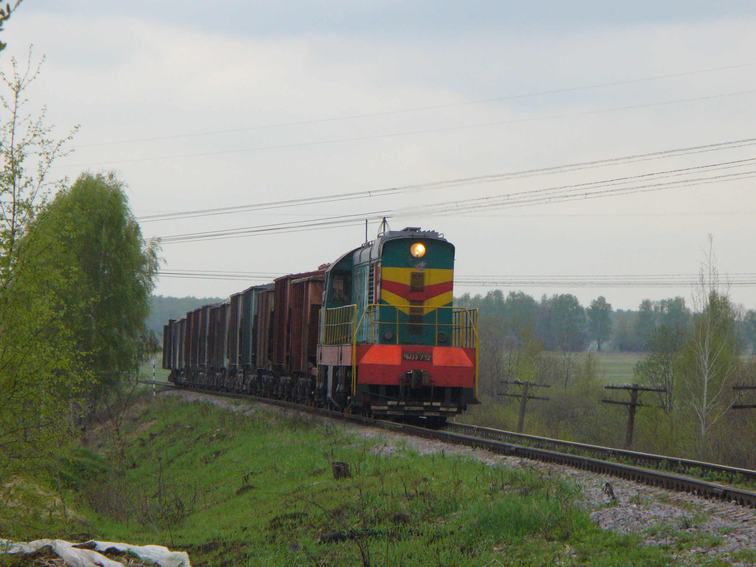 Industrial railway Aviatcionnaya - Ramenskii GOK